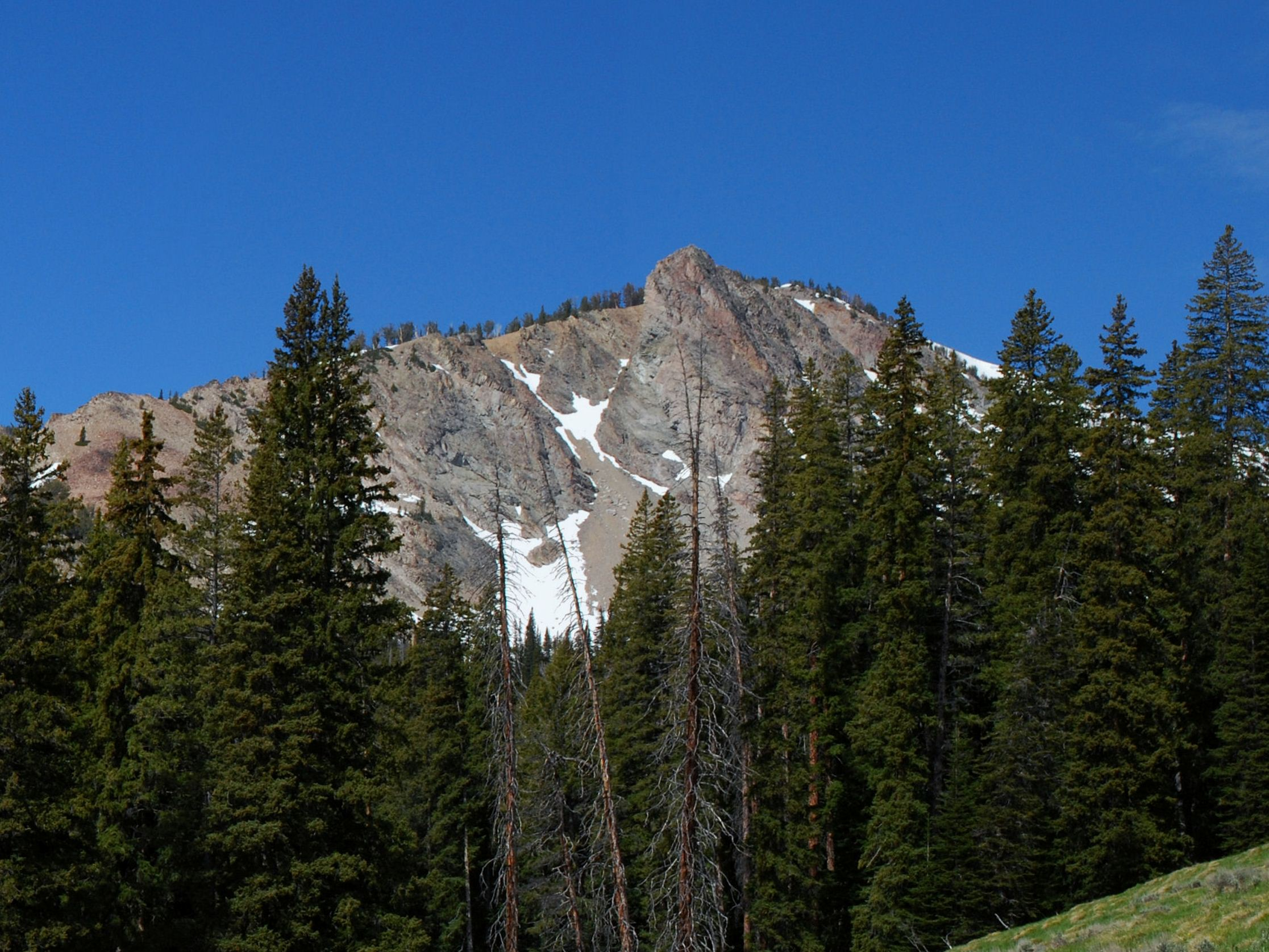 Backdrop Peak from the Baker Lake Trial in the Smoky Mountains of Sawtooth National Forest in Blaine County, Idaho. Photo is a derivative of File:Baker Lake Trail Panorama.jpg by Byron Hetrick.